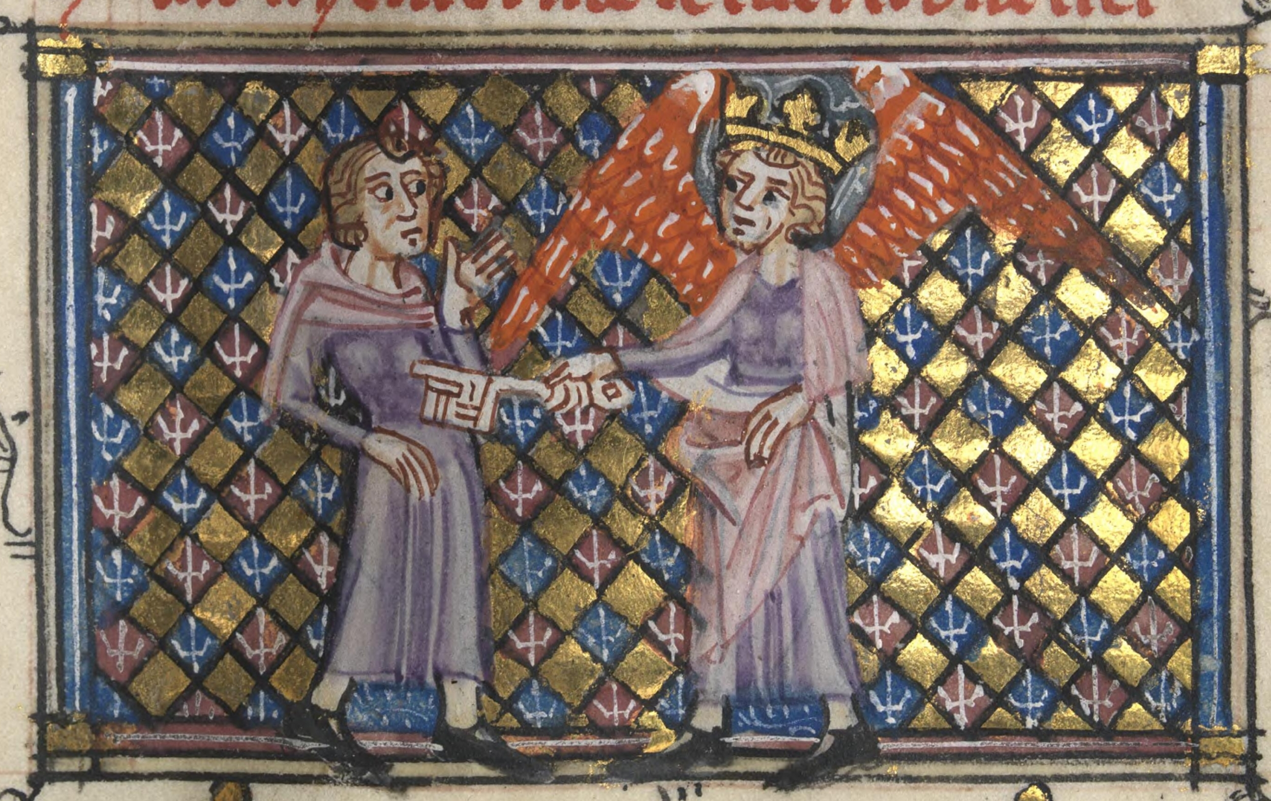 The Roman de la Rose manuscript contains one of the most popular romantic French poems of its time